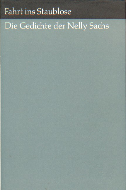 Book cover of Nelly Sachs "Fahrt ins Staublose. Die Gedichte der Nelly Sachs" 1961